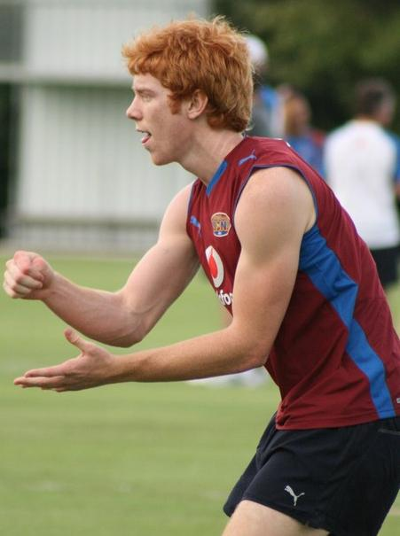 Todd Banfield at Brisbane Lions pre-season training in December 2008. Giffin Park, Coorparoo, QLD, Australia.